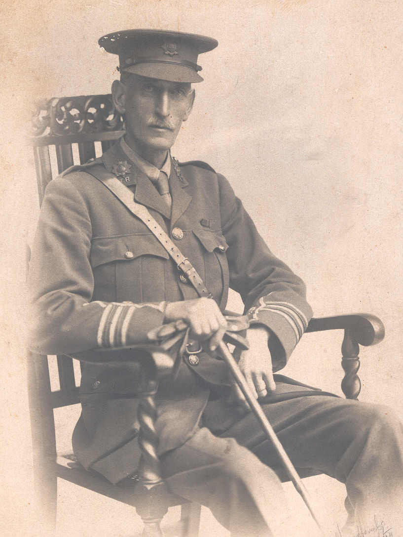 Major (later Colonel) Elliott served in the British Territorial Army and saw active service during the war. He was also Managing Director and later Chairman of Elliott Brothers Ltd, the builders merchants of Southampton UK.